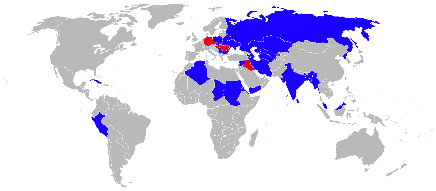 Mig-29 operators, as listed on English Wikipedia. Former shown in red.